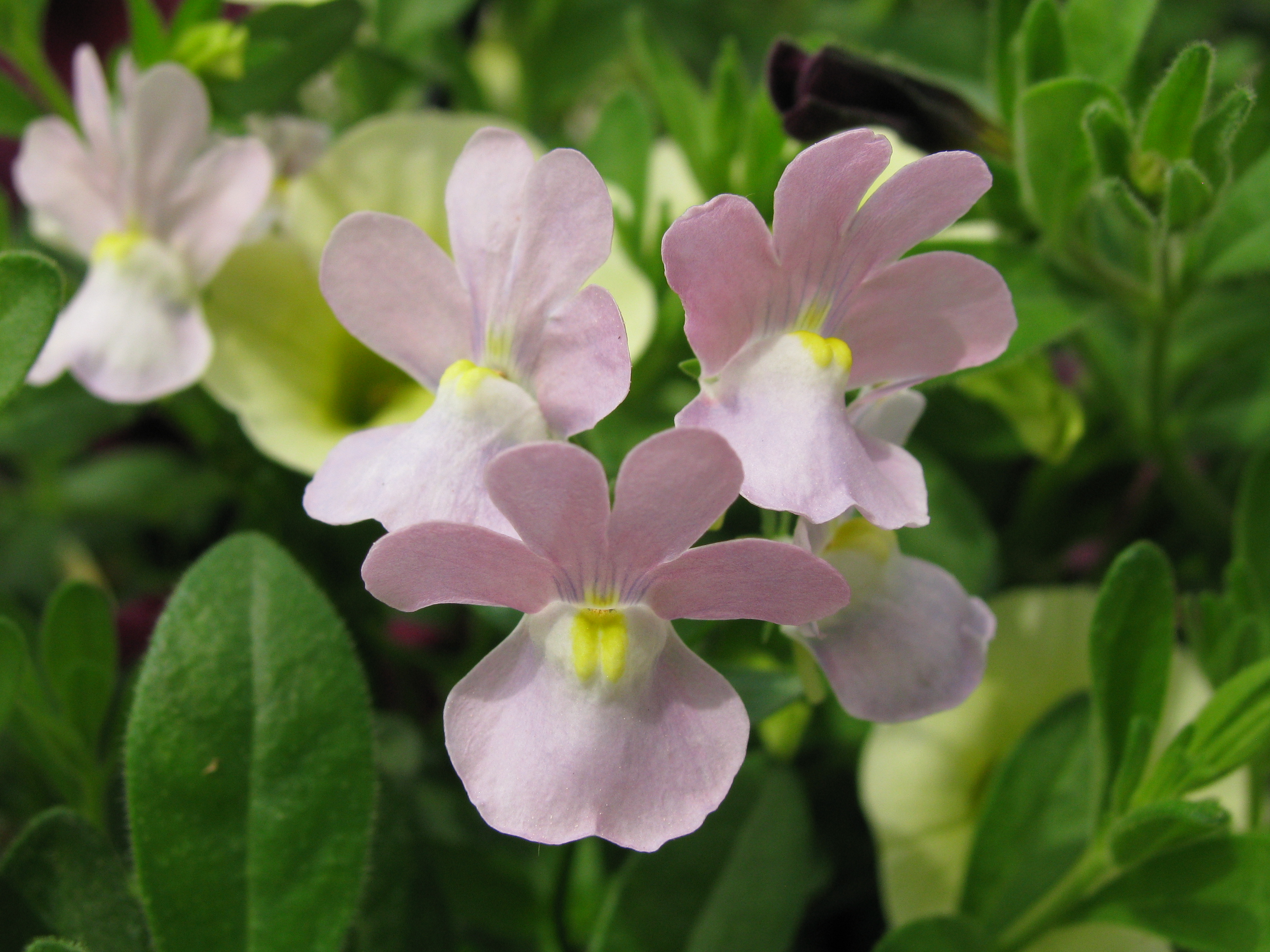 Nemesia fruticans cultivar 'Opal Innocence'